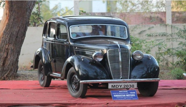 Pragyan 2013 Exhibitons Vintage Cars